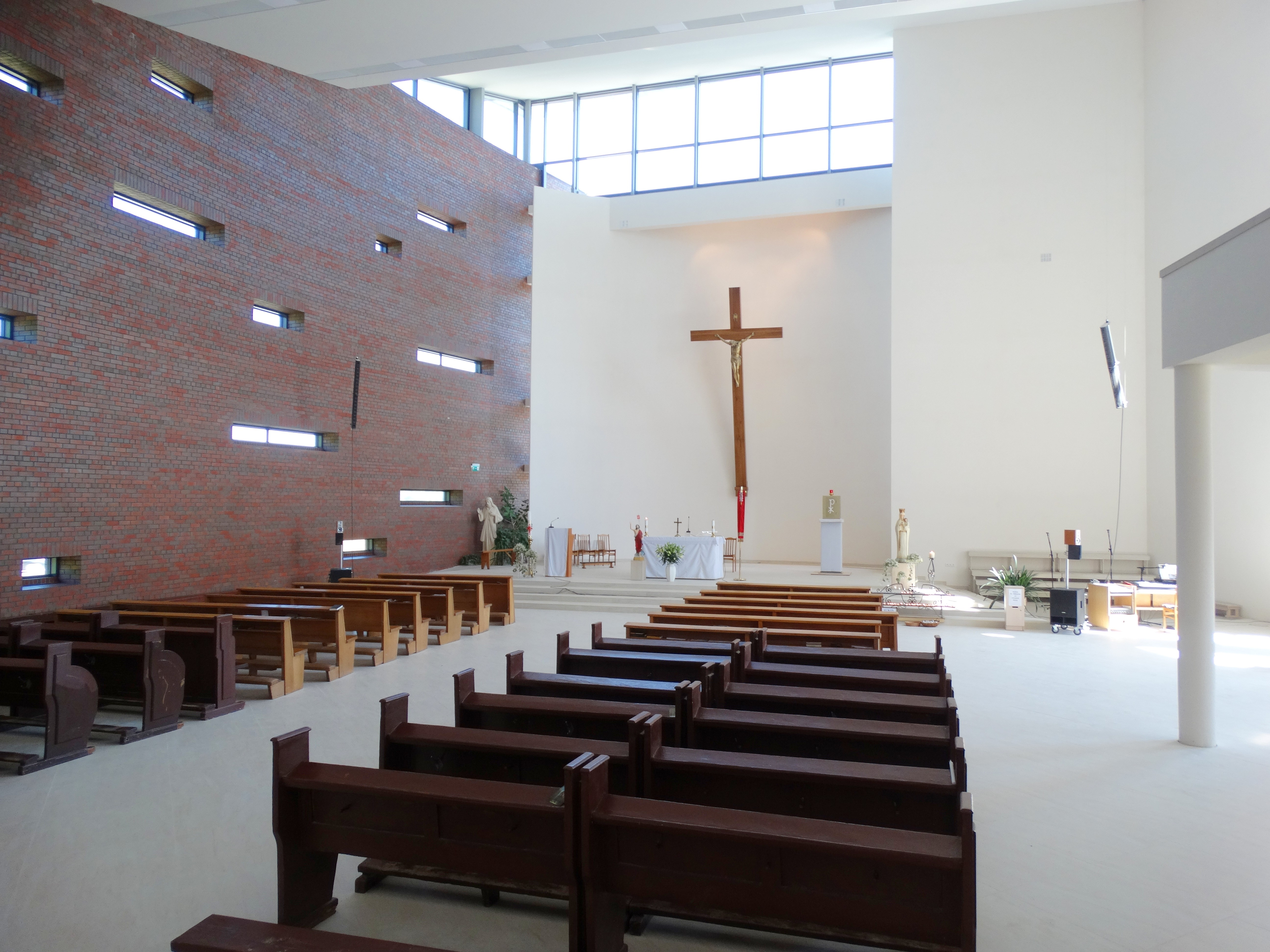 Blessed Matulaitis Church interior in Kaunas, Lithuania